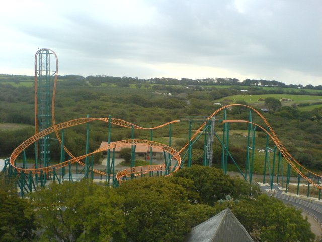 Oakwood Theme Park::Speed - No Limits. New for 2006, this custom built Euro-Fighter, built by Gerstlauer is Oakwood's newest key ride attraction - and the first more than vertical drop rollercoaster in the UK.